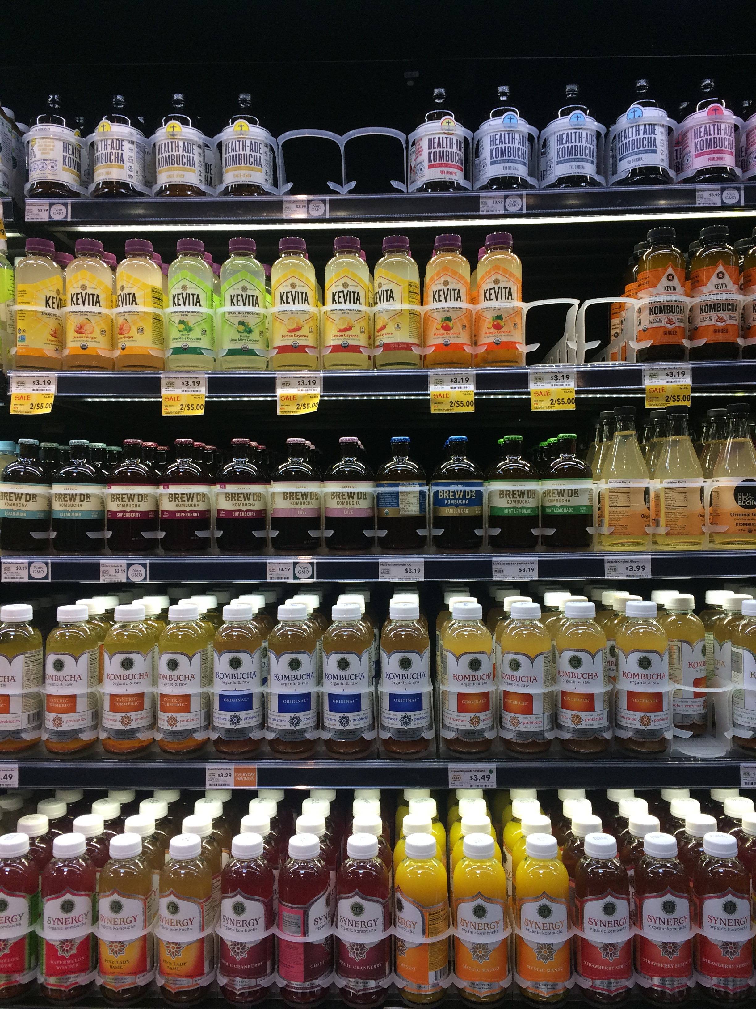 Selection of kombucha products in store shelves